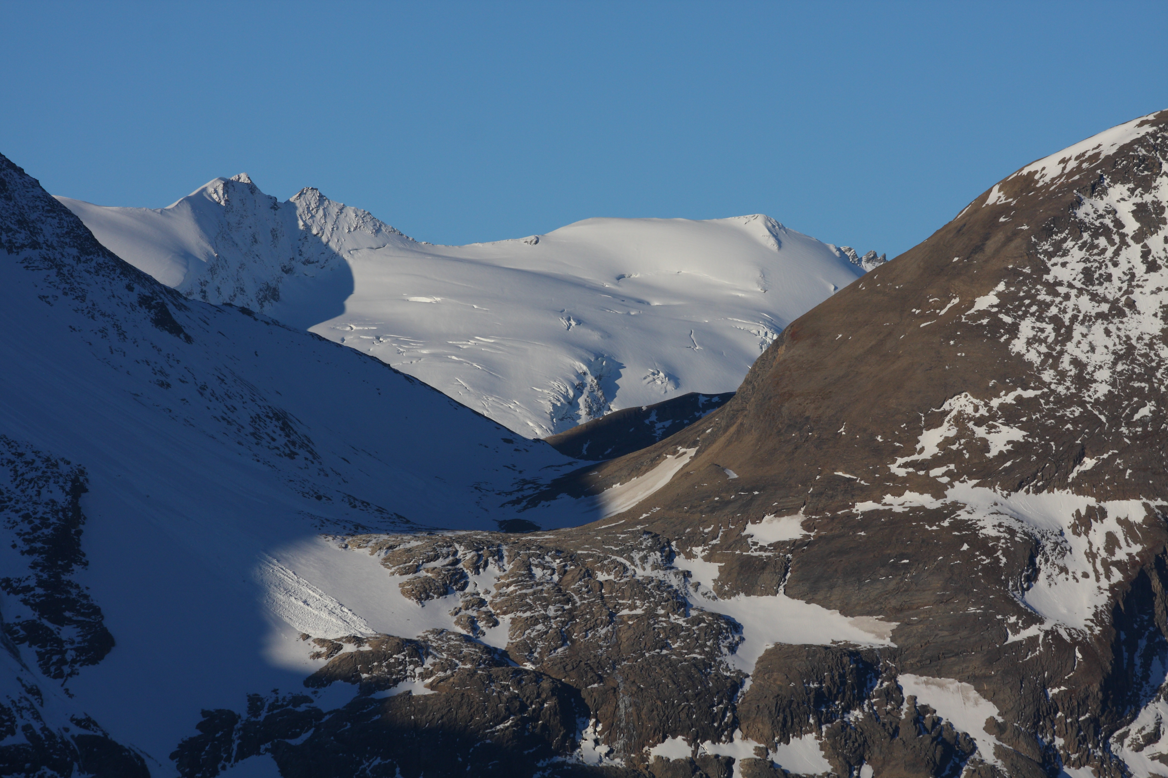 Grossglockner High Alpine Road, Austria